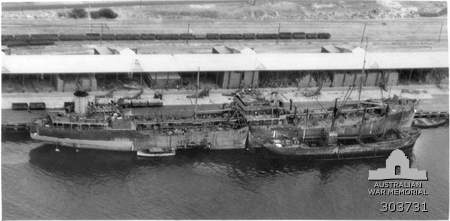 Aerial starbord side view of the Dutch tanker Ondina in 1943